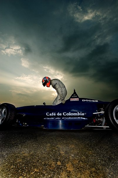 This is the car that led Steven Goldstein win the F2000 championship in USA.